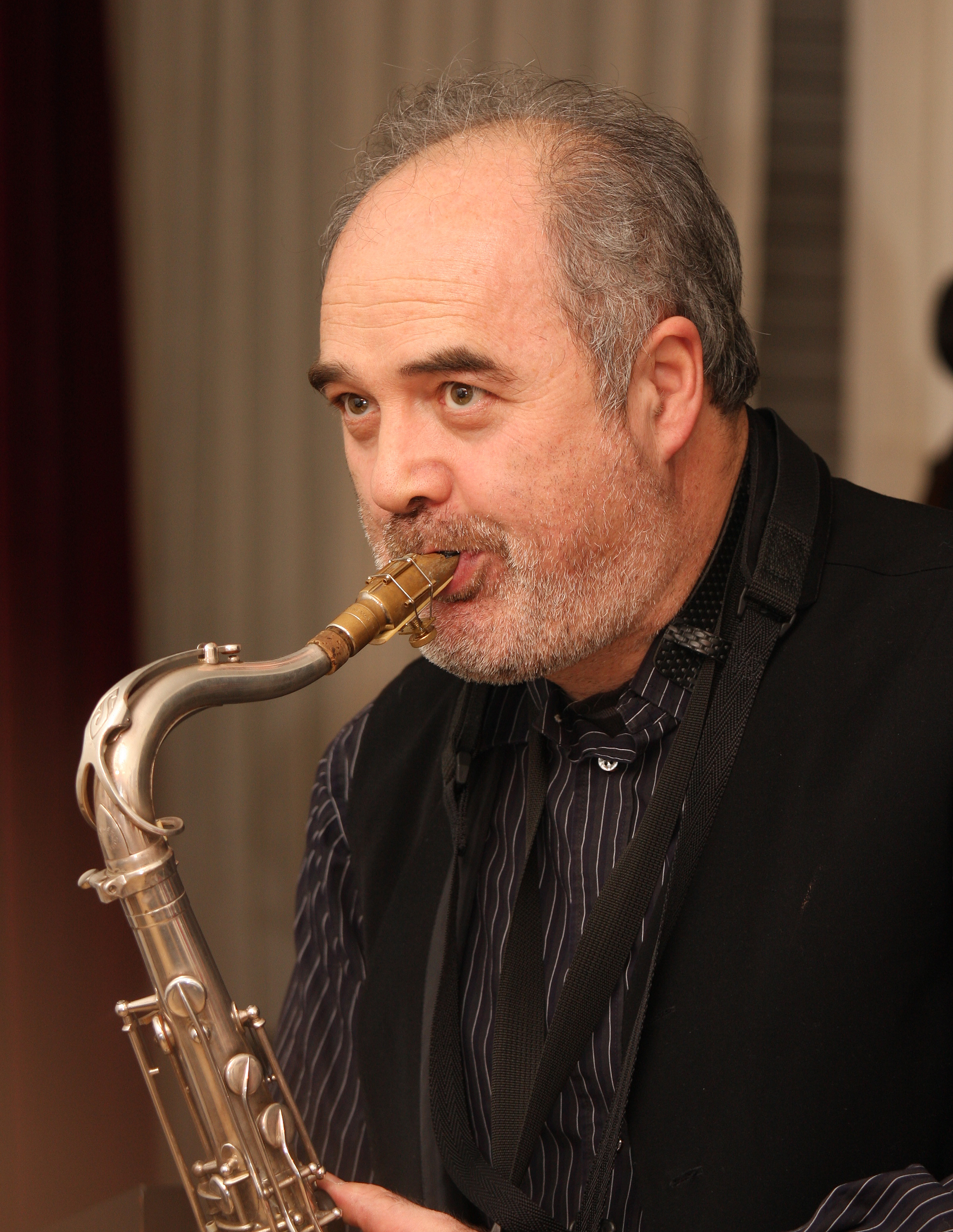 Nicolas Simion, Romanian Jazz saxophonist